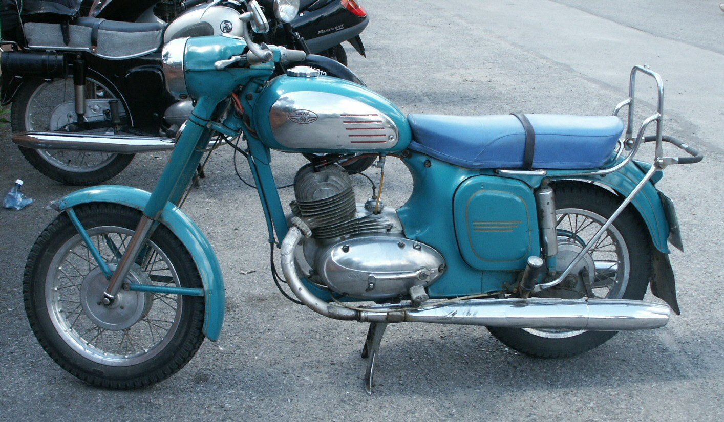 Jawa (250?) motorcycle